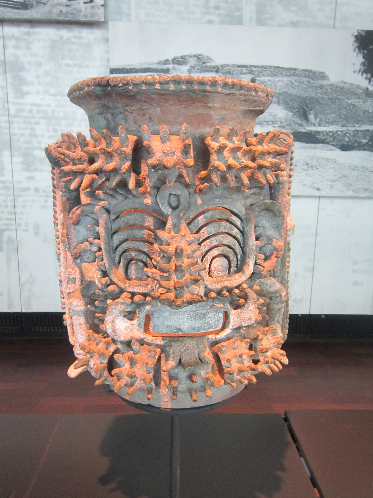 Maya Sun God Mask